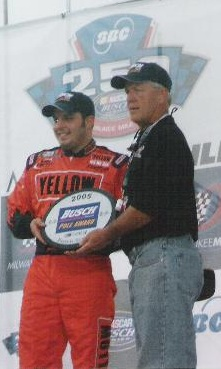 Johnny Sauter receives the Busch Pole Award for the 2005 SBC 250 at The Milwaukee Mile